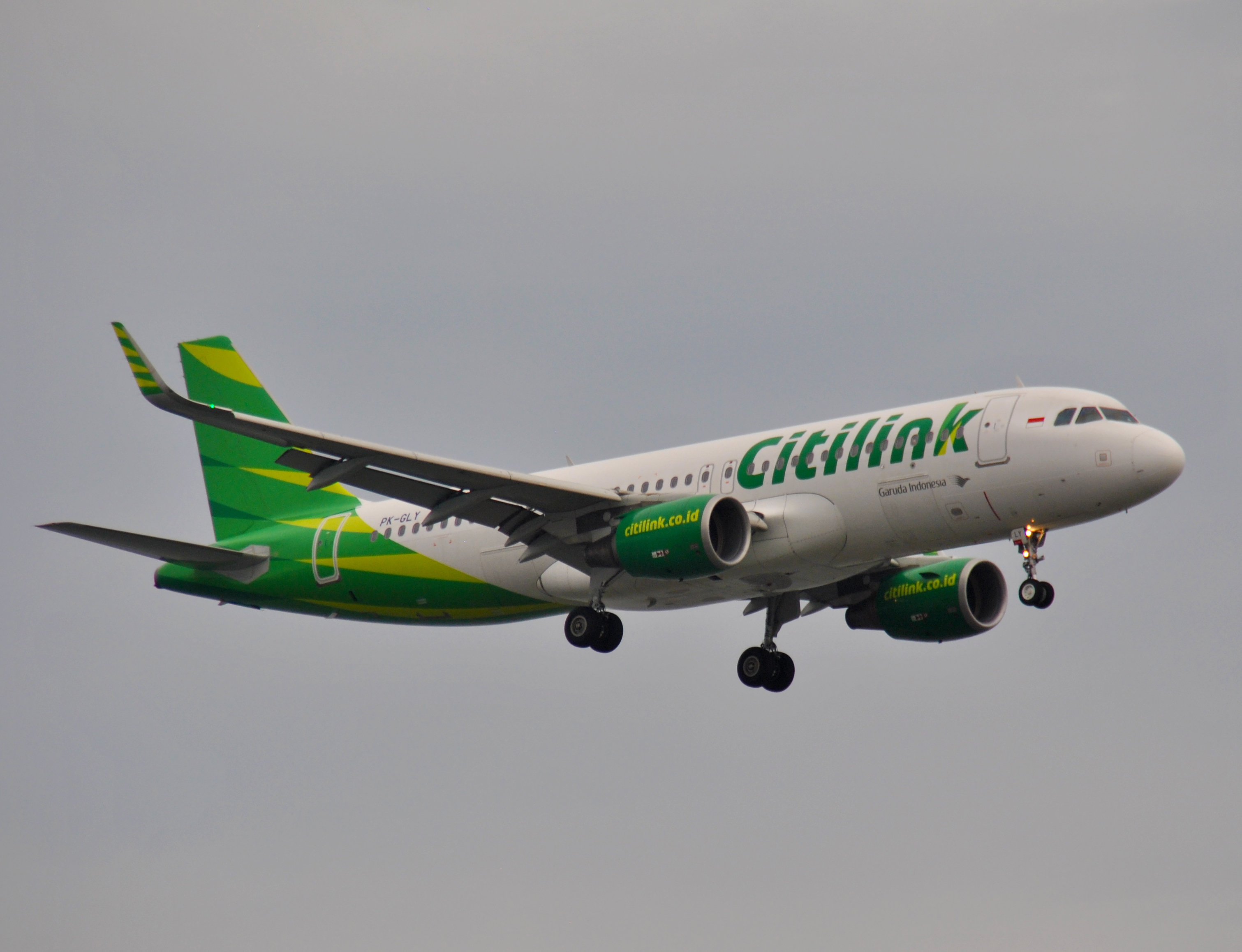 Citilink Airbus A320-200 (PK-GLY) during final approach, Ngurah Rai Airport, Tuban, Badung Regency, Bali, Indonesia.